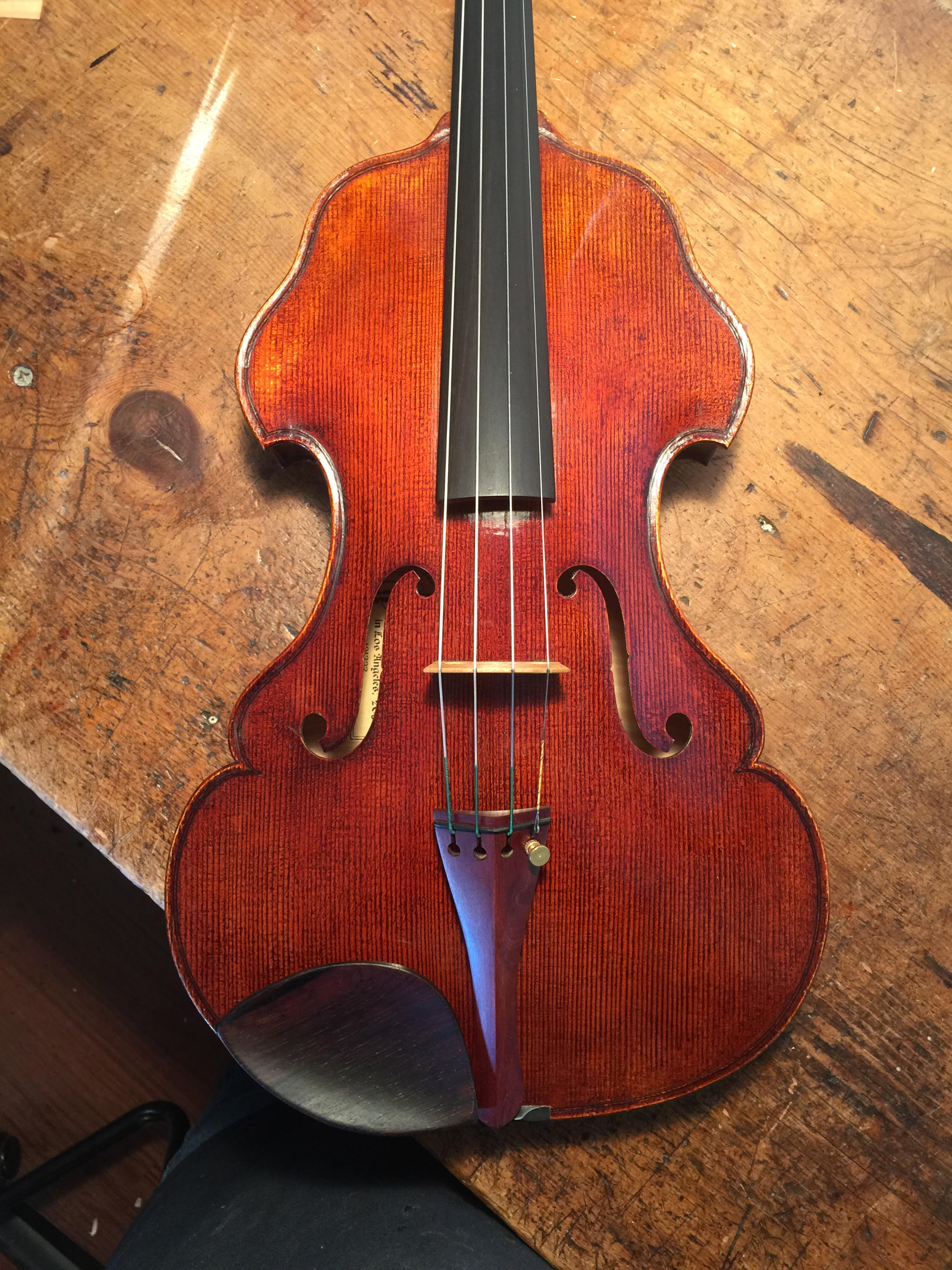 Oak Leaf viola. Image from Eric Benning, Benning Violins